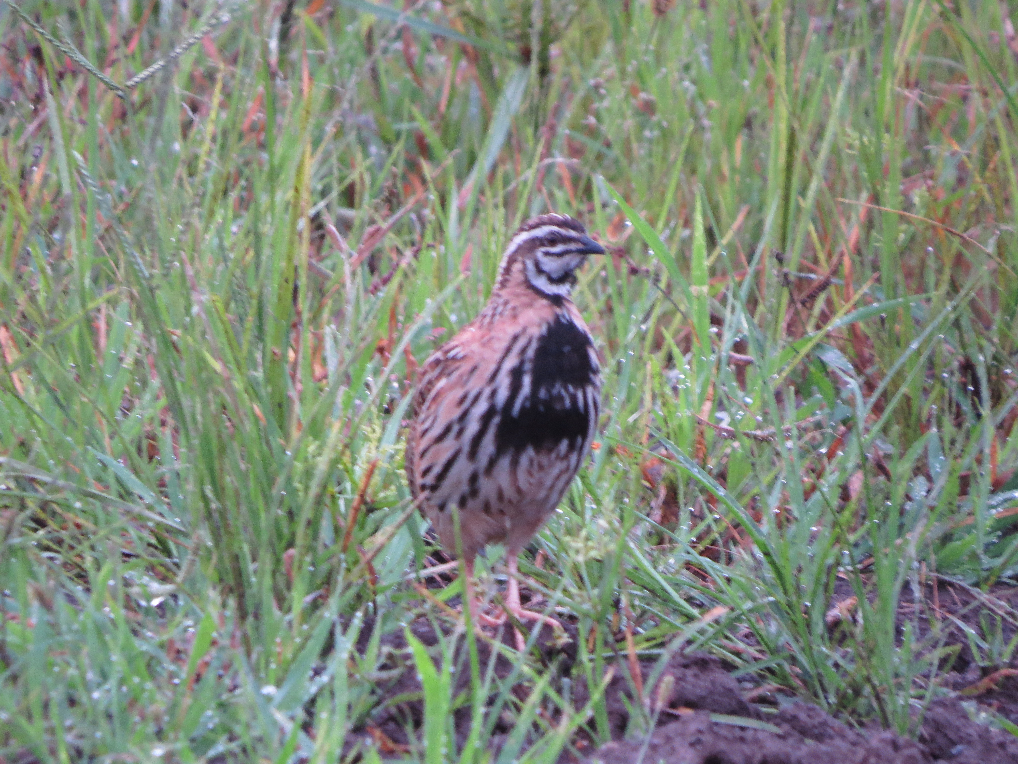 The Rain Quail or Black-breasted Quail (Coturnix coromandelica) is a species of quail found in the Indian Subcontinent.